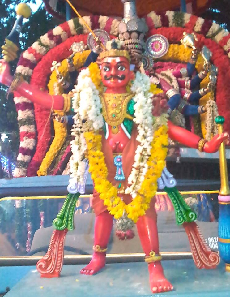 Lord Pavadairayan - At Panrutti Angalamman Mayanakollai Festival.